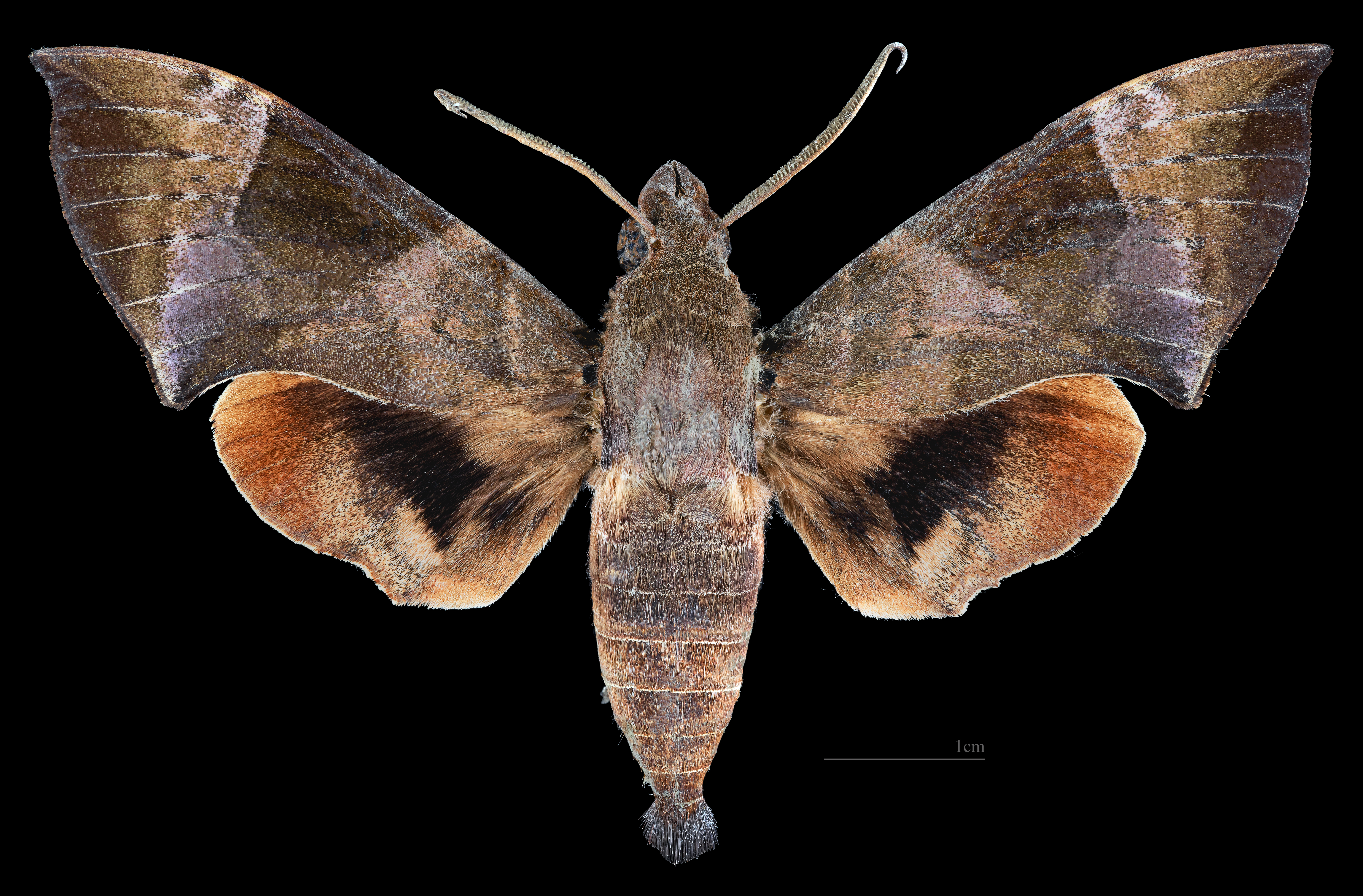 Eurypteryx alleni - Dorsal side Collection of the Mathematician Laurent Schwartz